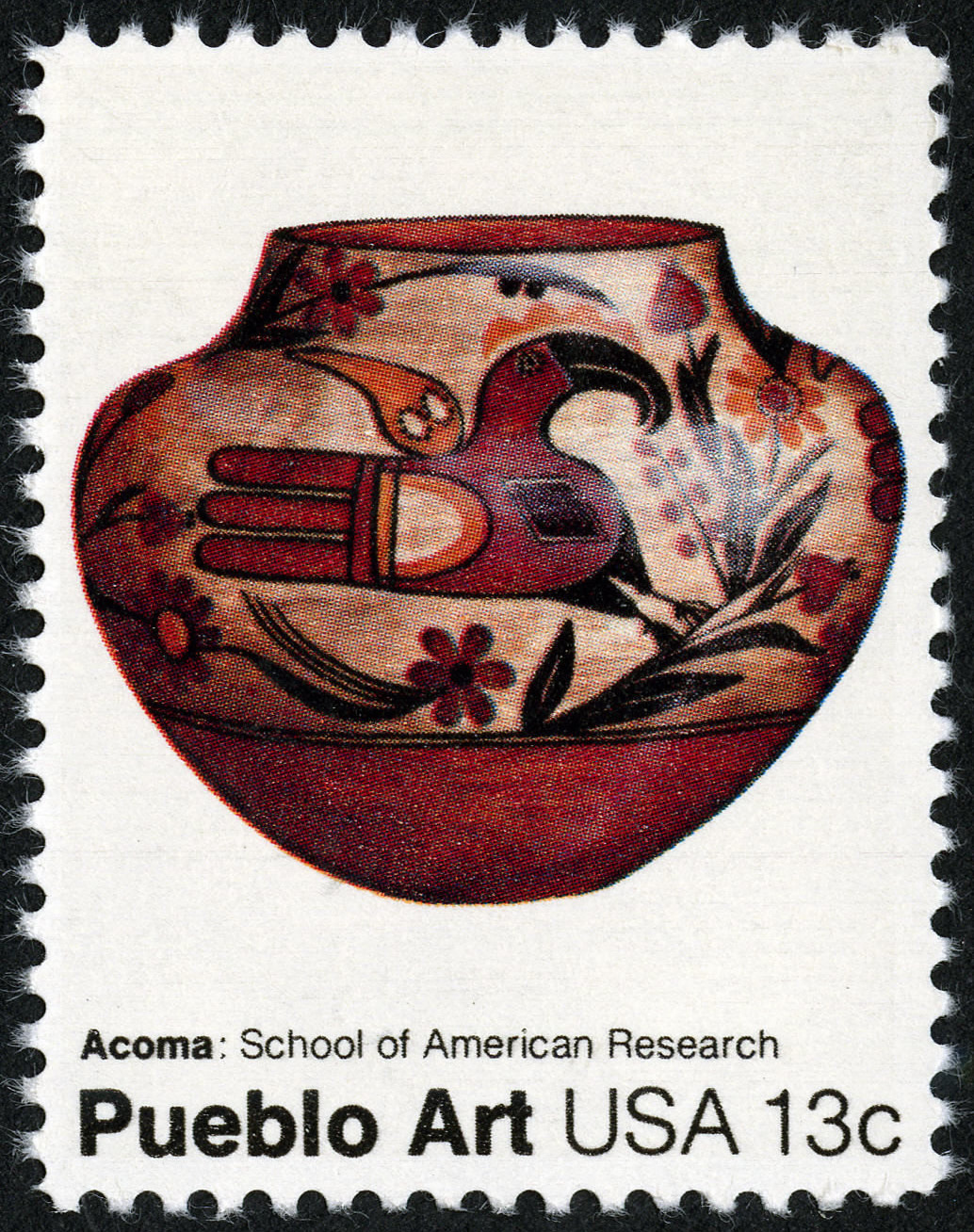 American Folk Art Series: Pueblo Pottery - Acoma Pot - Acoma: School of American Research - 13-cent 1977 U.S. stamp.